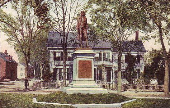 Statue of Josiah Bartlett, Amesbury, MA; from a c. 1910 postcard.